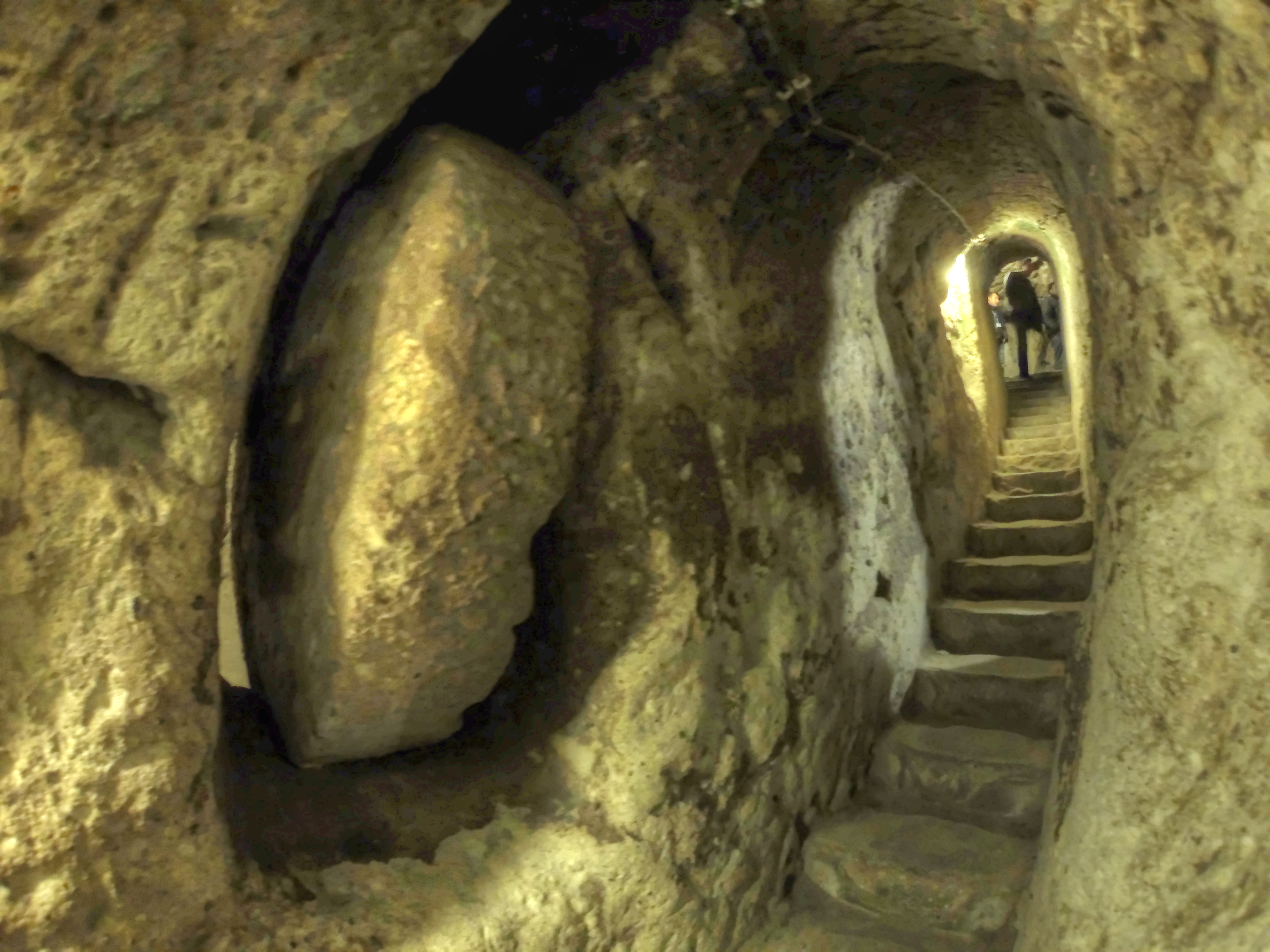 Derinkuyu Underground City in Cappadocia, Turkey. Christians fled the enemies and hid in this underground cities.